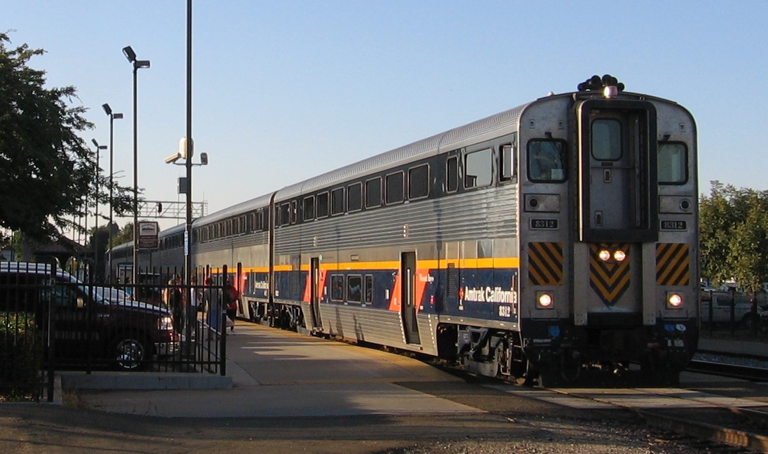 The Fresno (Amtrak station) in Fresno, California, USA.